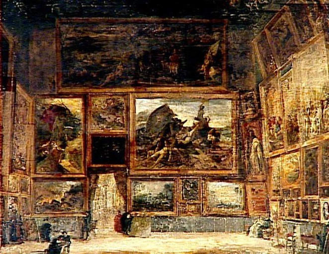 Raft of the Medusa shown in Salon Carre of the Louvre Painting depicting Gericault's on display in the Louvre, by Nicolas Sebastien Maillot, held in the Louvre, Paris